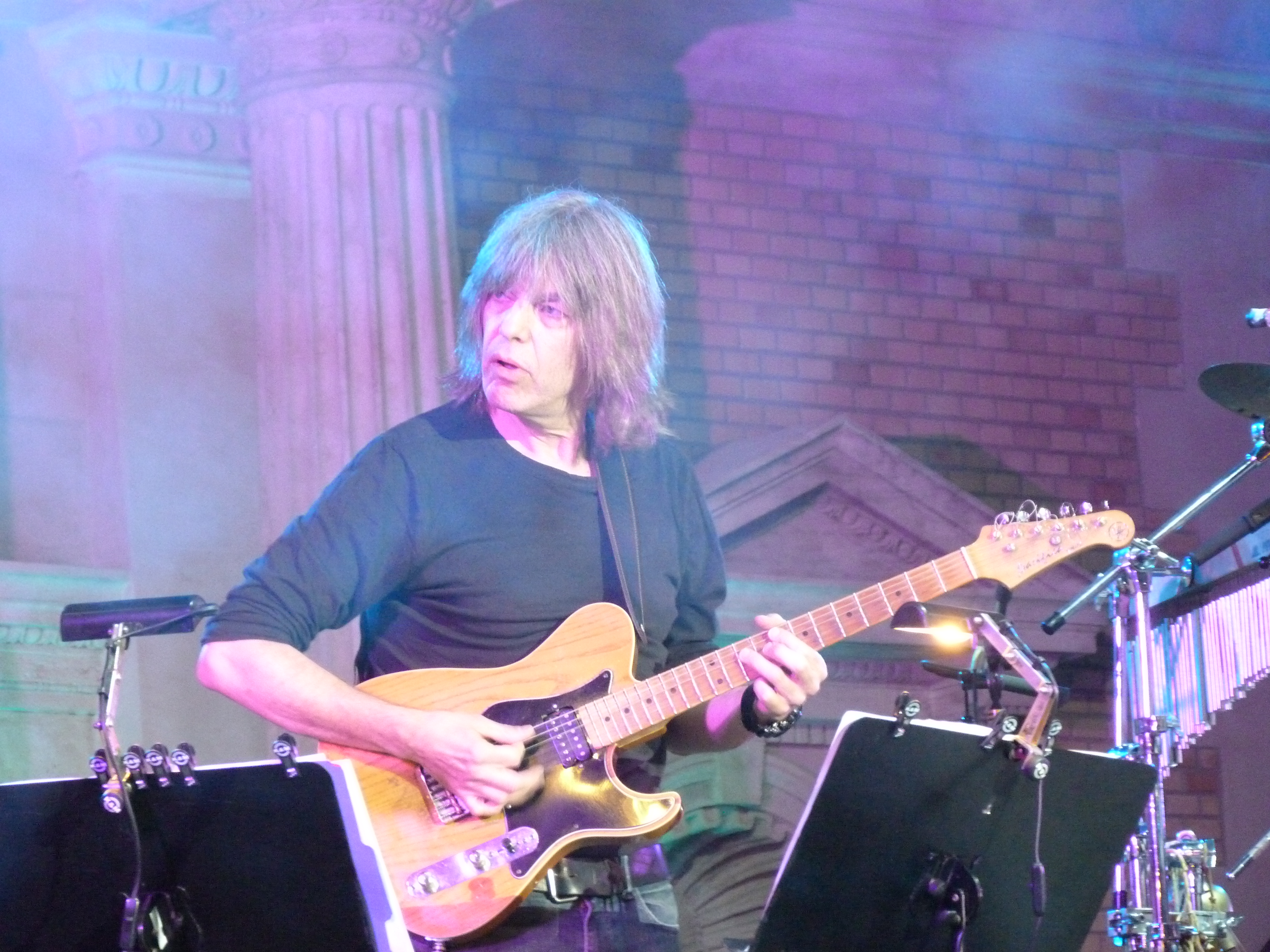 Live on the 21st of August, 2015. Várkert Bazár, Budapest, Hungary. Leslie Mandoki gave an open air concert at Várkert Bazár. His guests: Chris Thompson, Nik Kershaw, Piero Mazzocchetti, Szakcsi Lakatos Béla, Mike Stern.